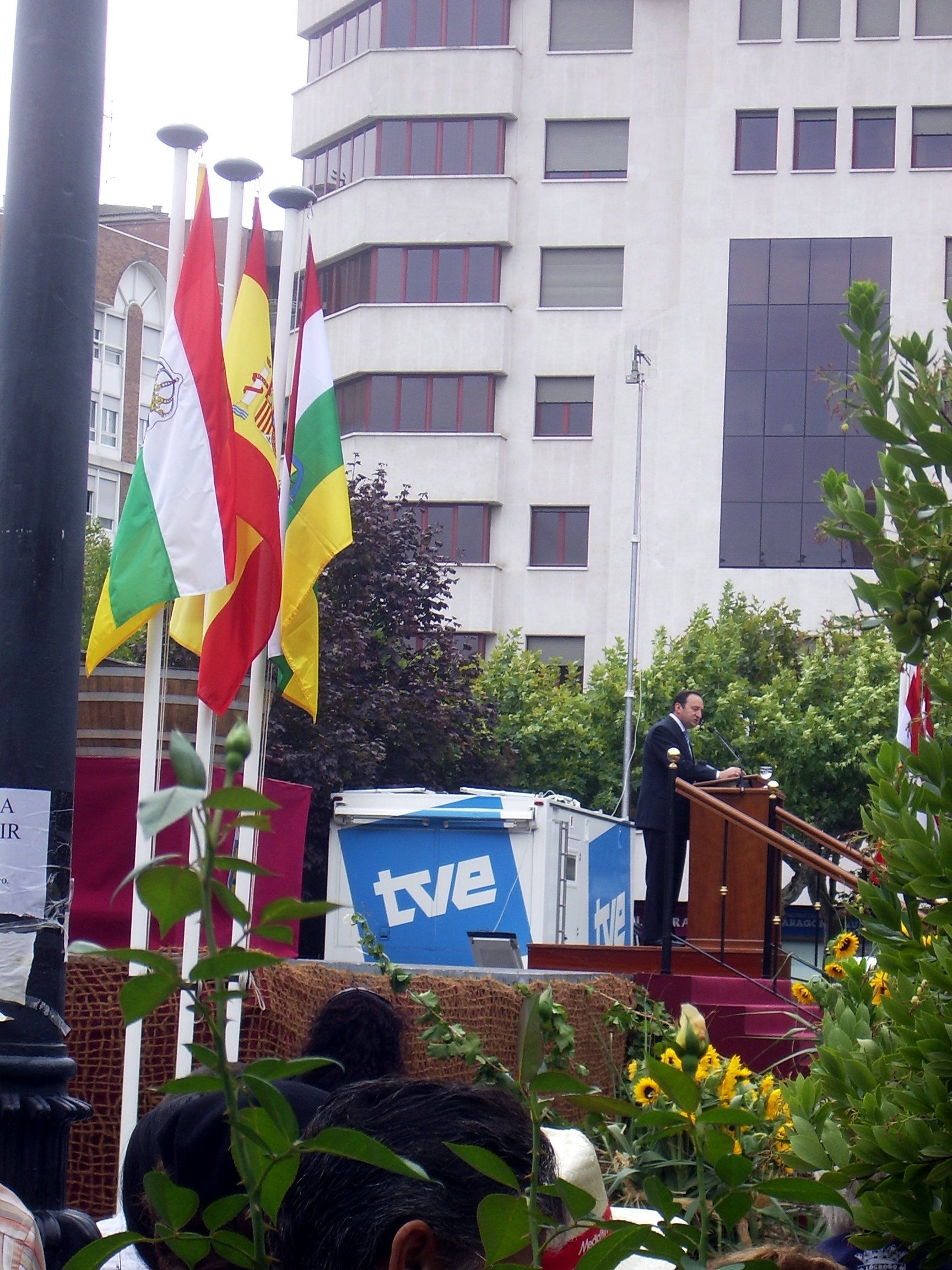 Pedro Sanz, president of Autonomous Community of La Rioja, Spain, in the official act of the "pisado de la uva", Festivity of San Mateo (2006